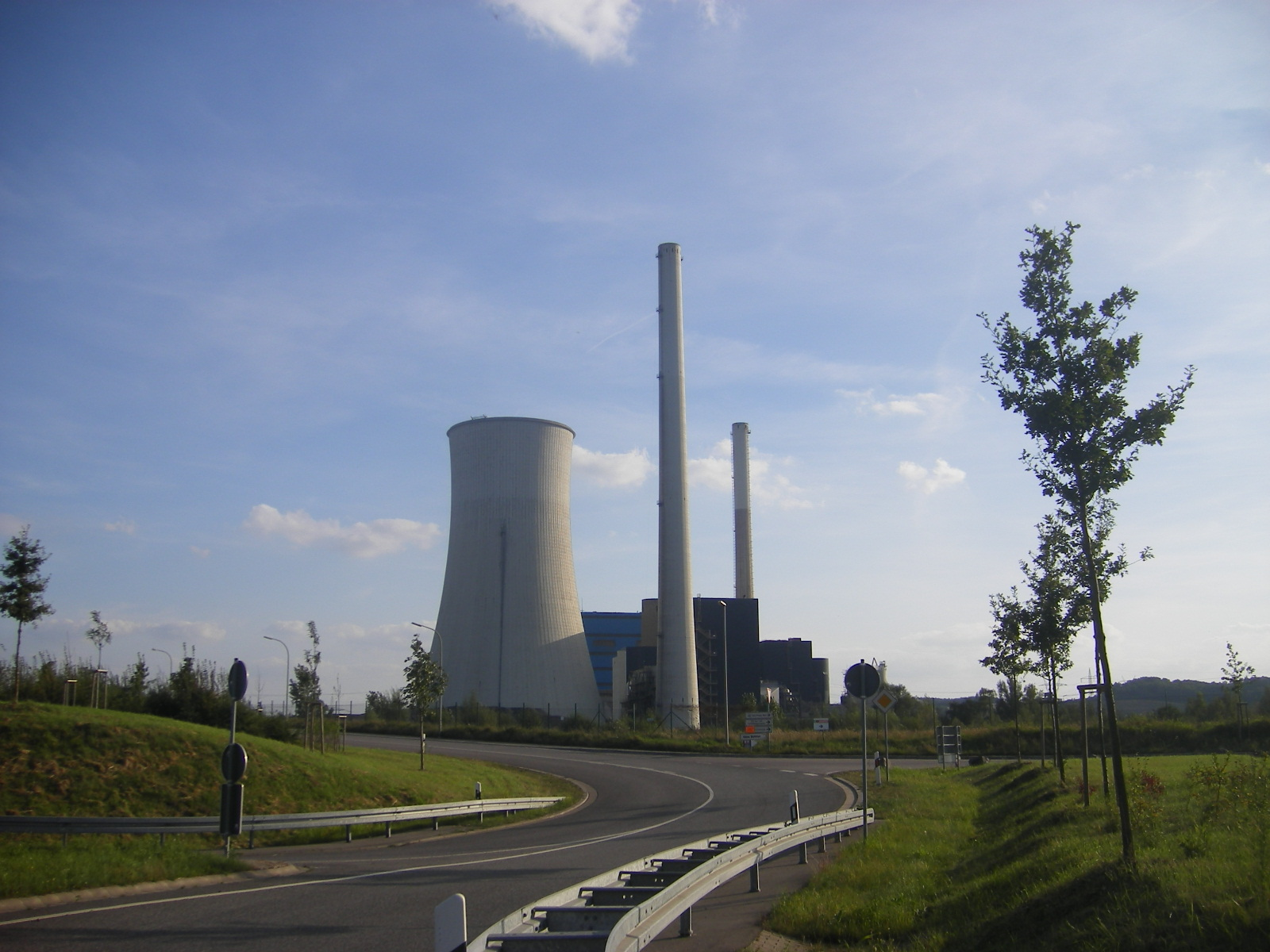 Ensdorf power plant